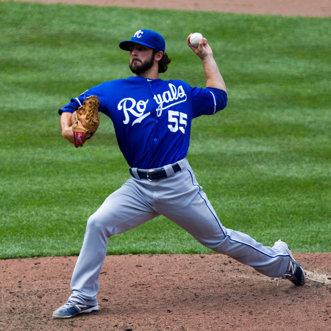 Tim Collins